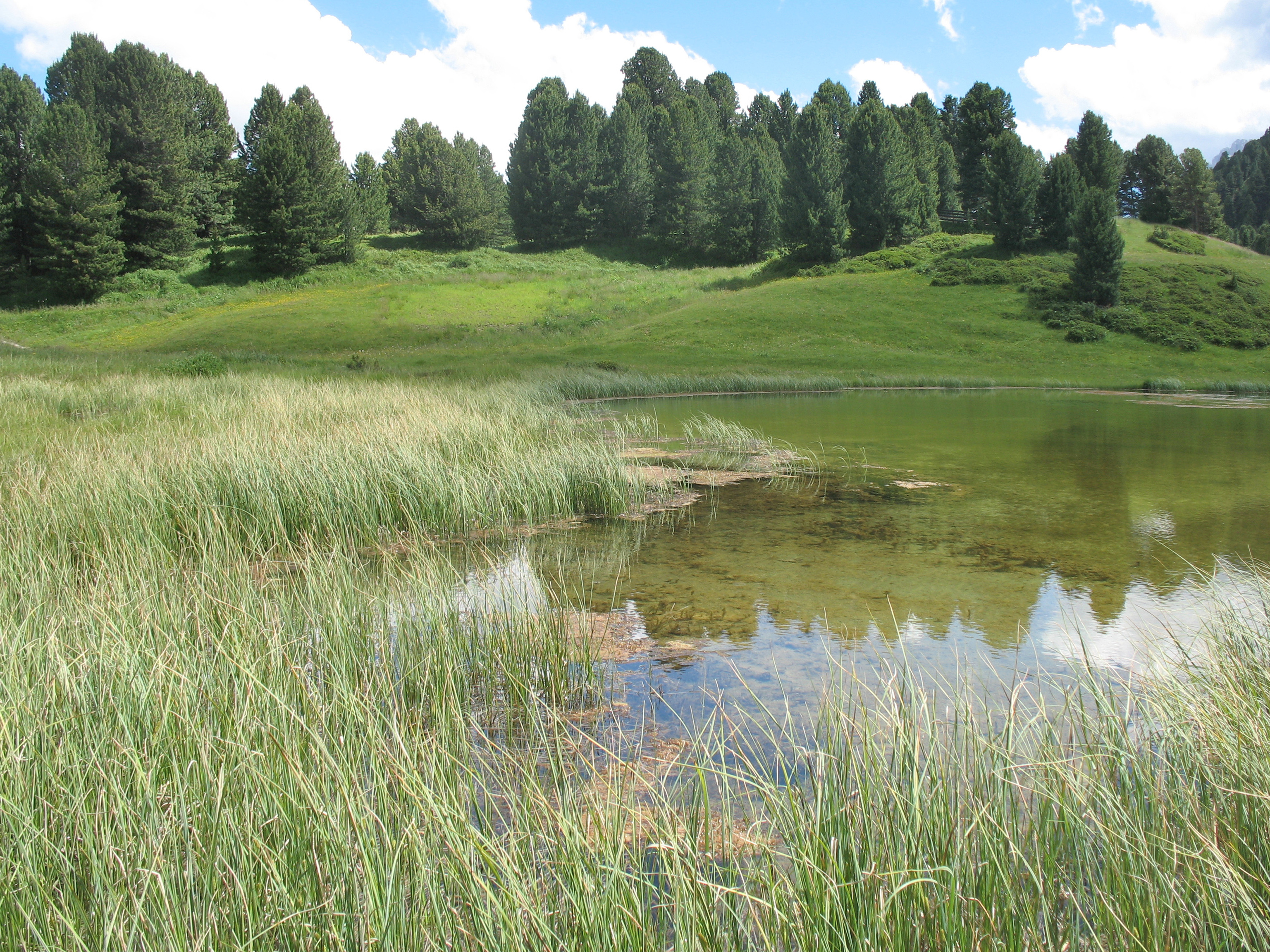 Lech Sant in Gherdeina.